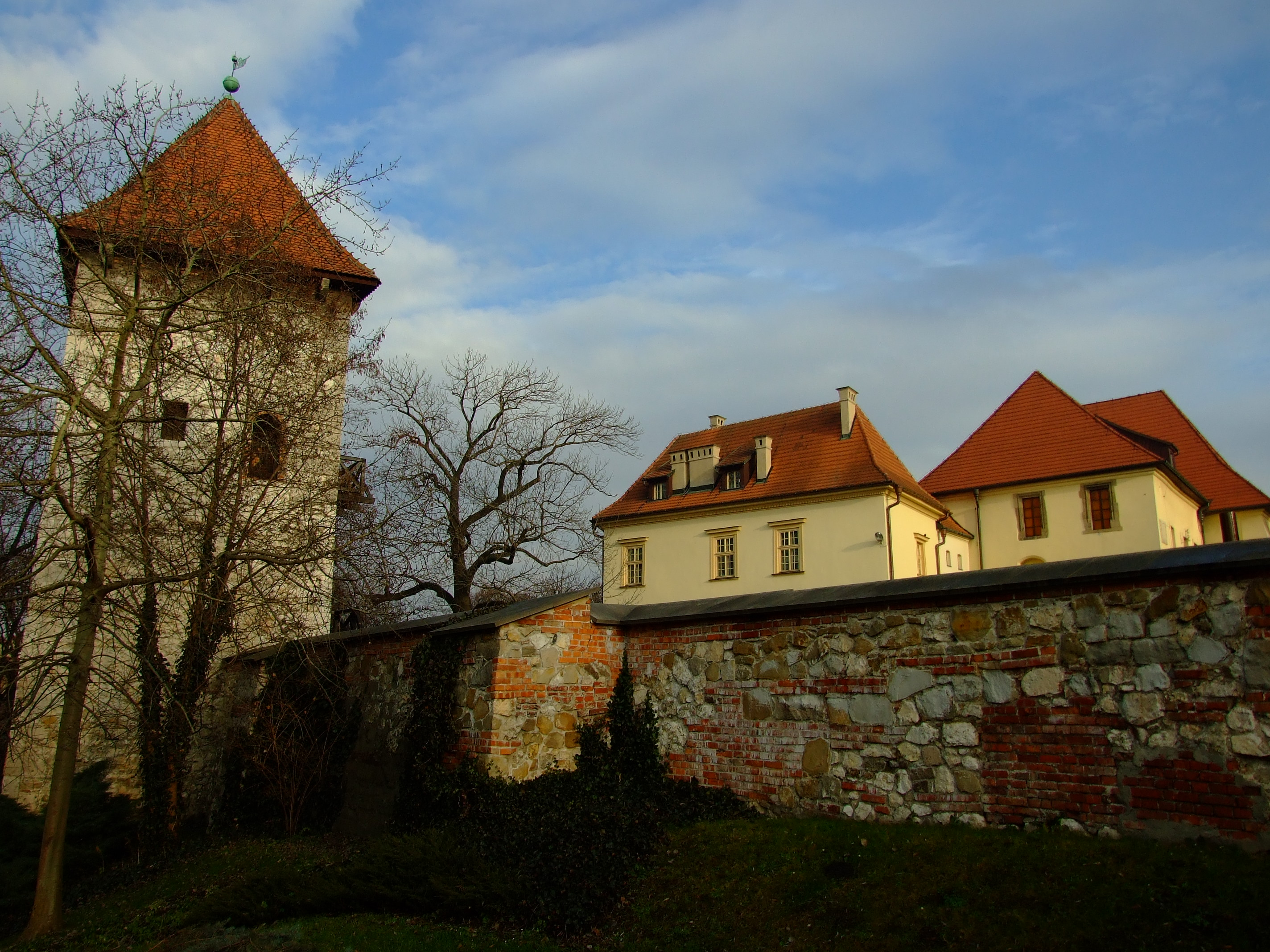 Wall and tower of the former castle (zamok) in Wieliczka, Lesser Polish Voivodship, PLhelp